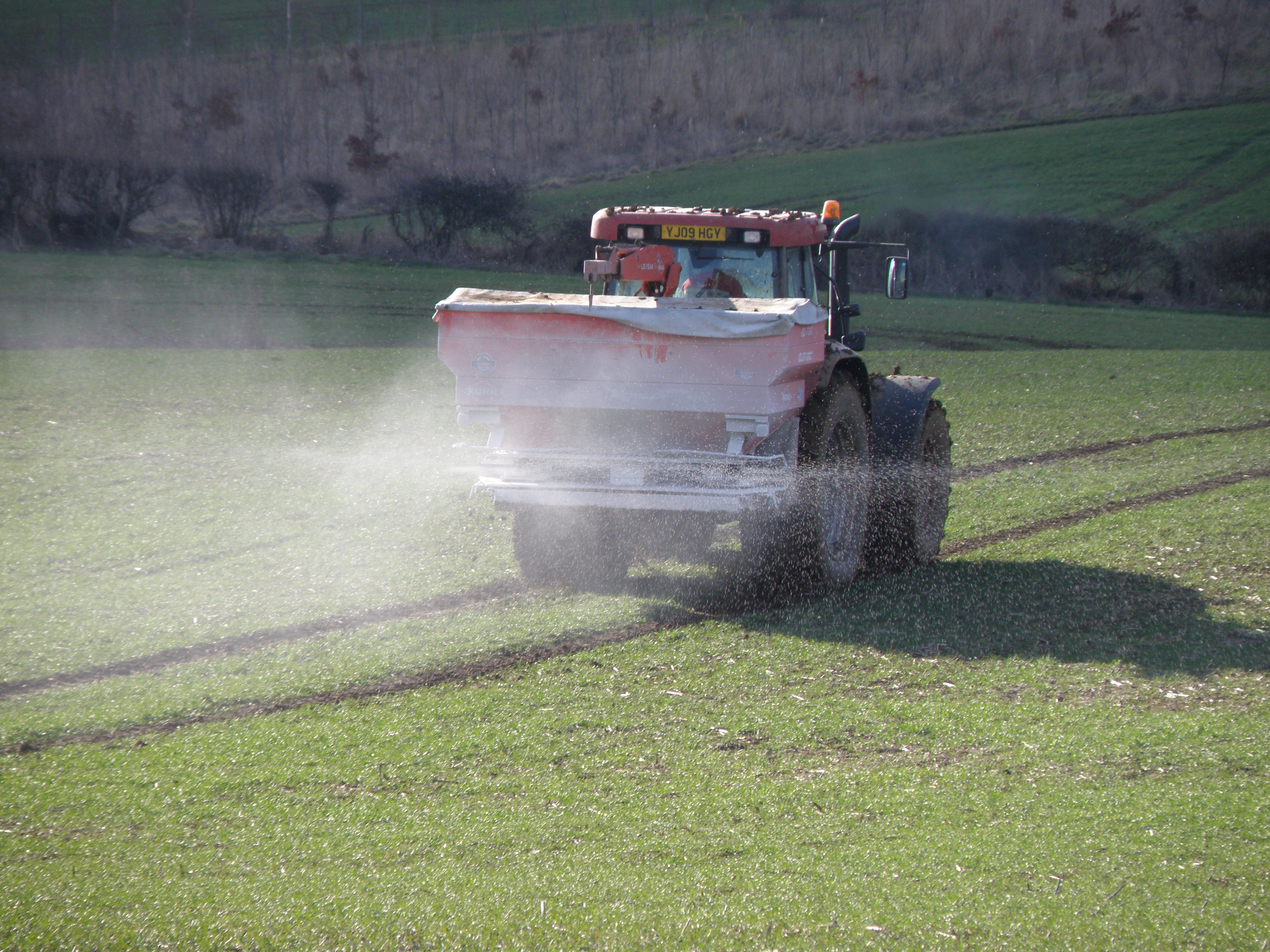 Top dressing winter wheat. Ammonium nitrate fertiliser being applied to a winter wheat crop on the hill above Wakerley. The fertiliser is carried in tiny round ball called prills. The machine (spreader) is calibrated to deliver a set amount over a given width at a constant forward speed. TF3239 : Four men and their dog went to calibrate their spreader shows how a spreader should be calibrated.